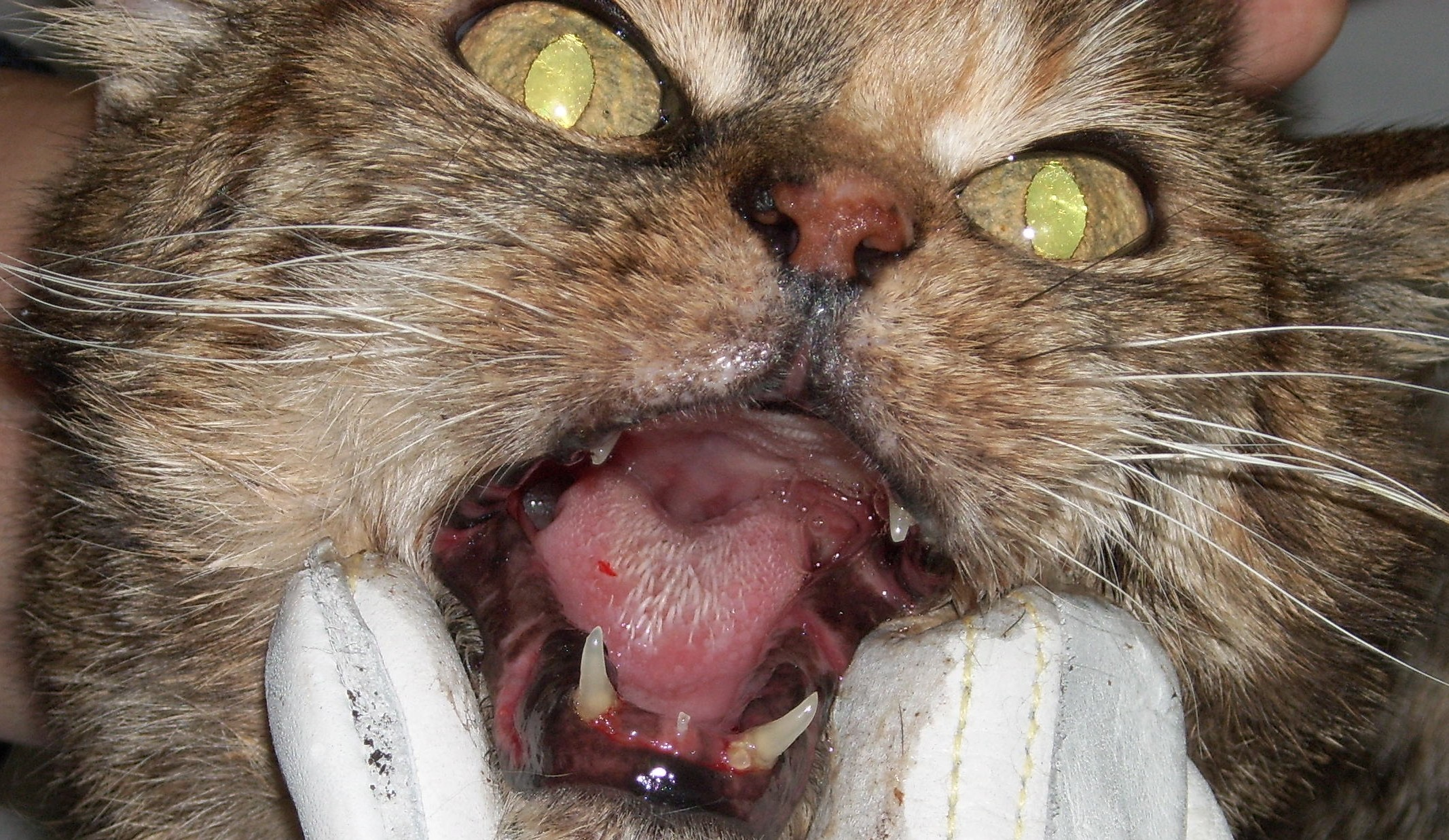 Feline Gingivostomatitis, after 3 days of interferone therapy